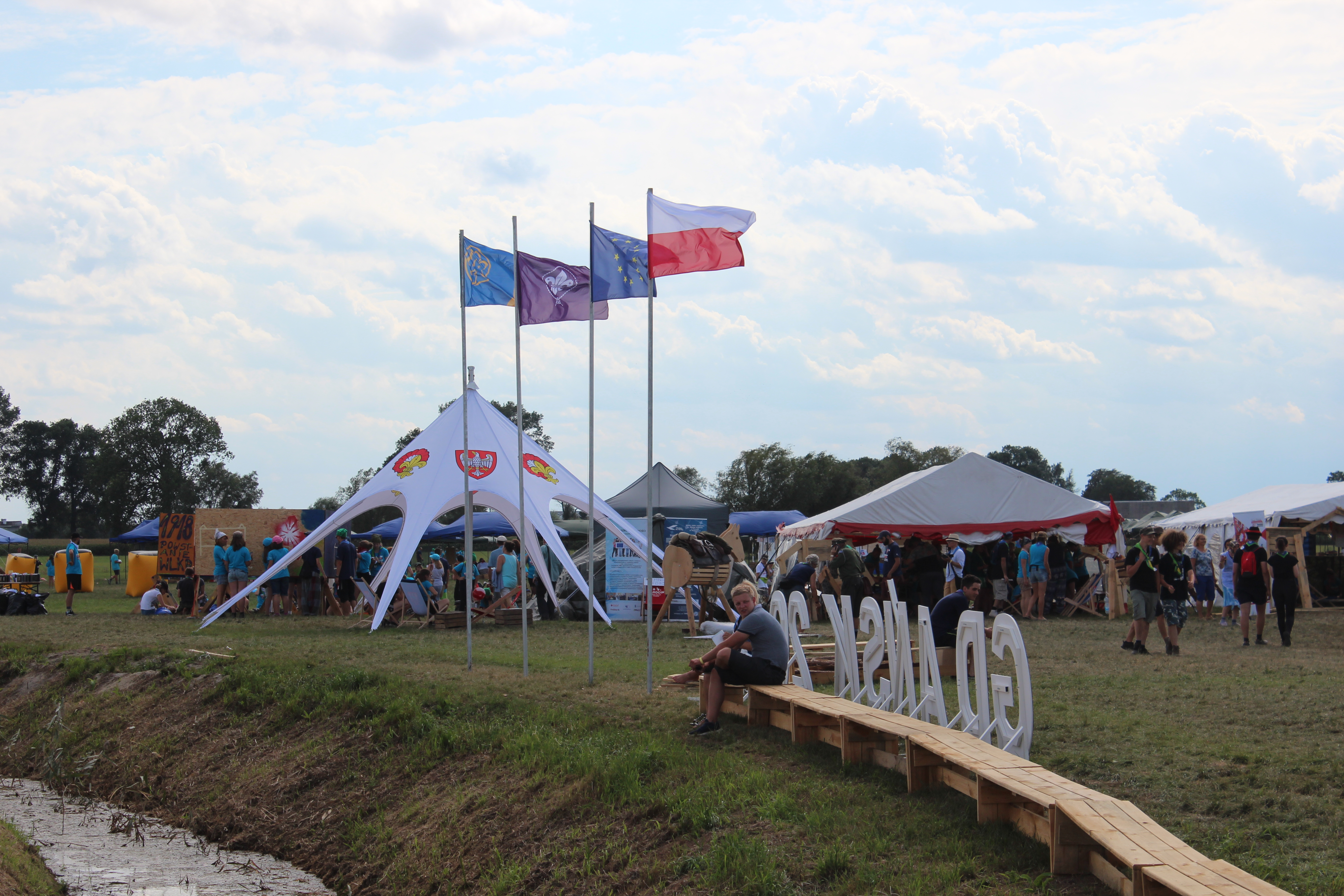 Gdańsk 2018 - Polish Scouting and Guiding Association Jamboree